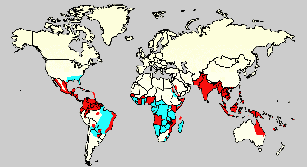 Map showing the distribution of dengue fever in the world, as of 2006. Map produced by the Agricultural Research Service of the US Department of Agriculture.